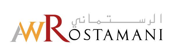 Aw Rostamani logo